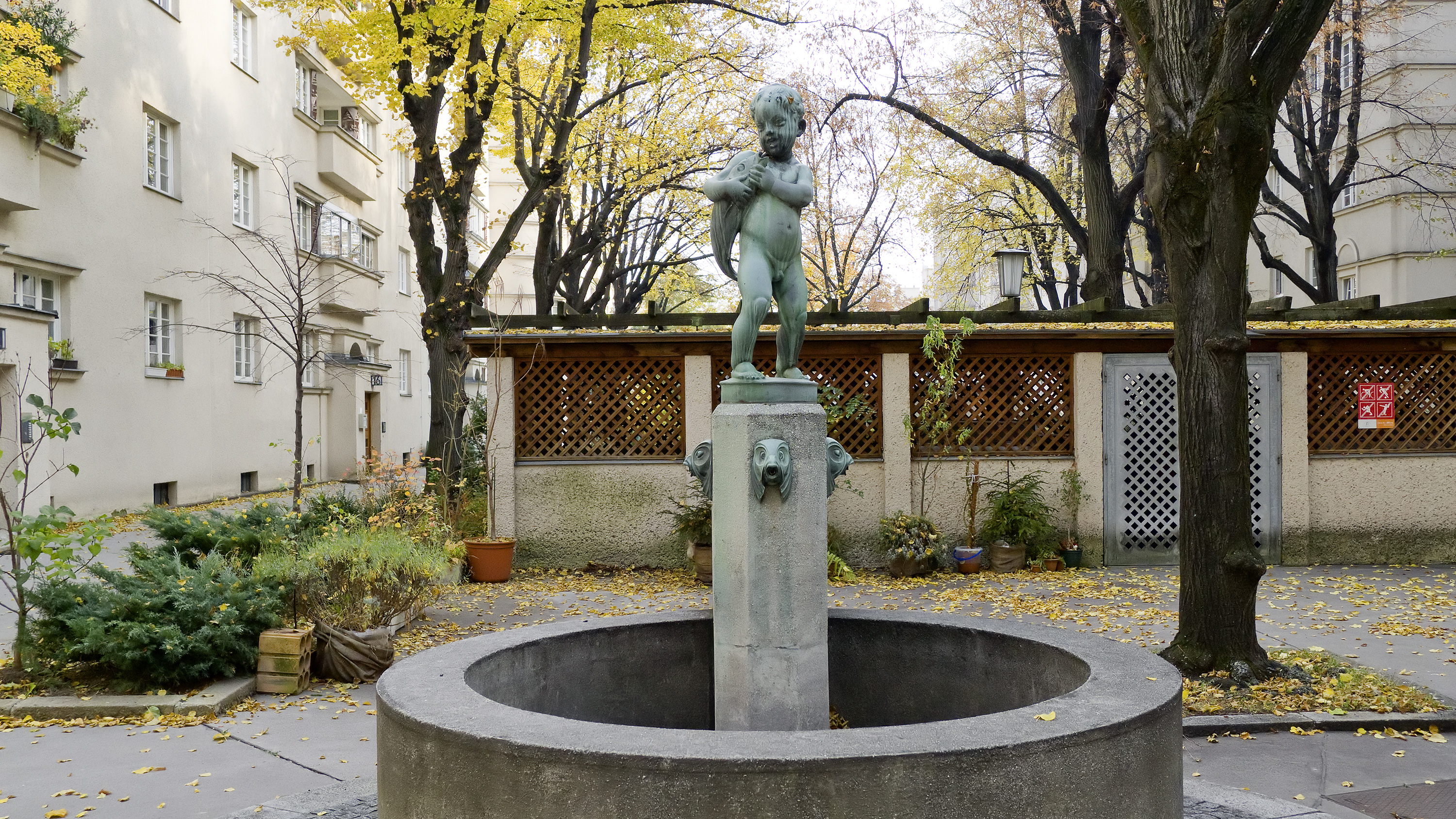 Residential building Lindenhof in Vienna 18